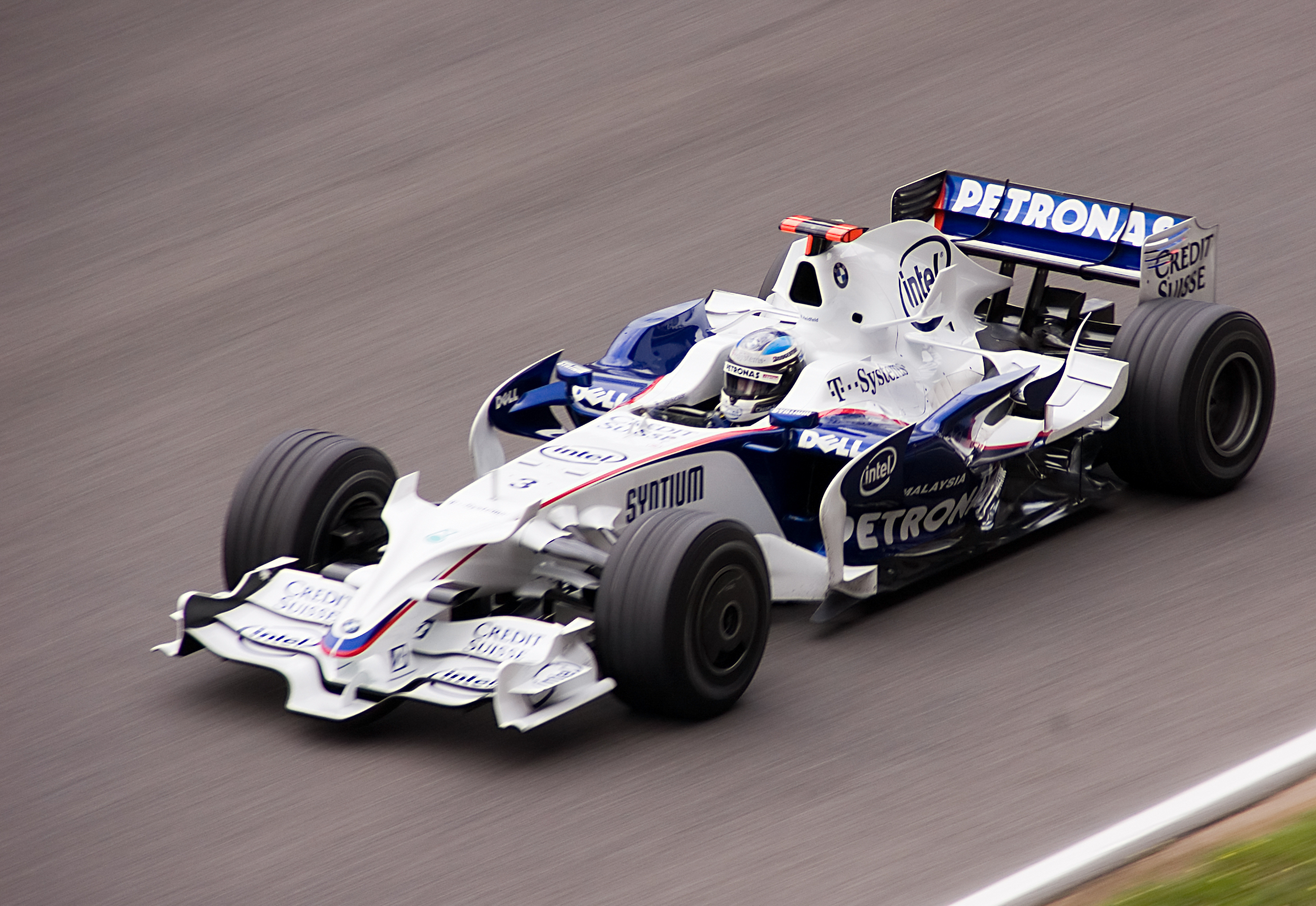 Nick Heidfeld testing for BMW Sauber at the Circuit de Catalunya in June 2008.